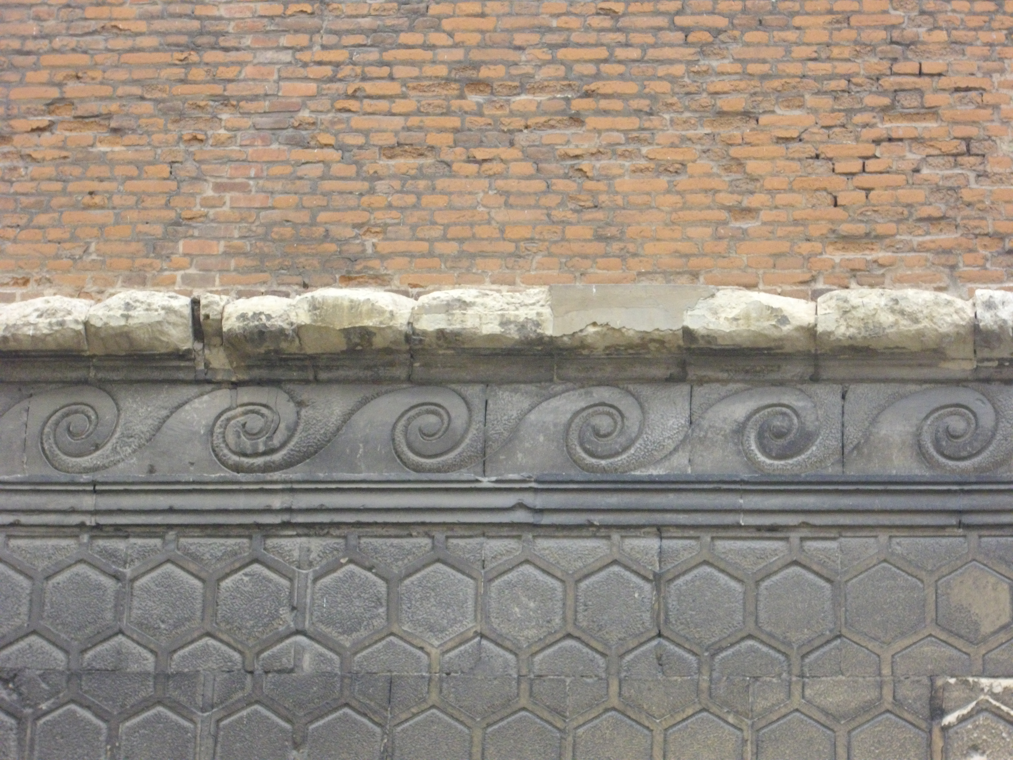 Muire hotel in Reims (Marne, France), detail .